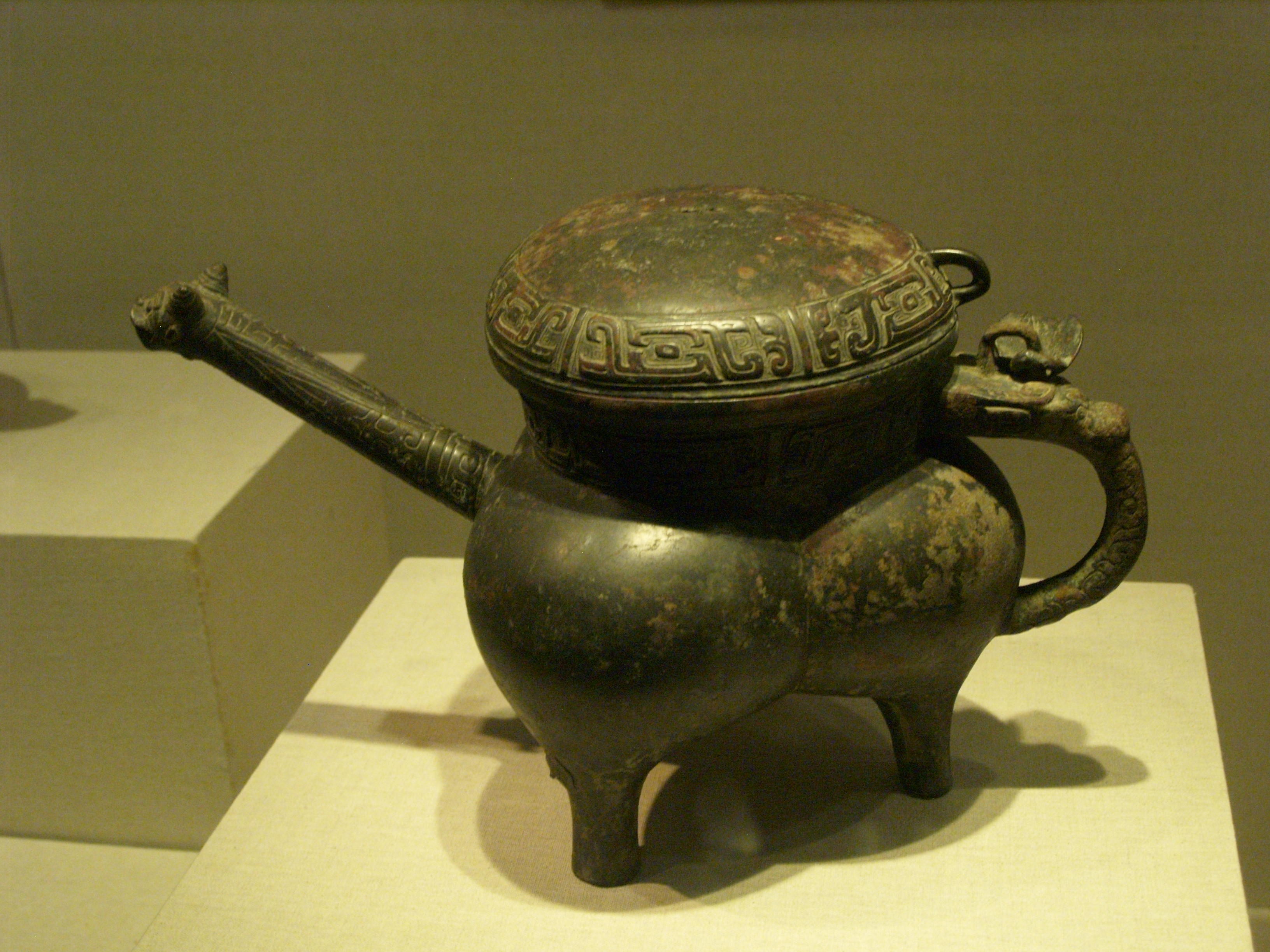 Water container from the late Western Zhou period, Shaanxi History Museum Info provided by the museum below: "He" Water Container with Characters "Bo Yong Fu" Late Western Zhou Dynasty (Mid-6th Century - 771 BC) Excavated from a bronze hoard, Zhangjiapo, Chang'an District, Xi'an City